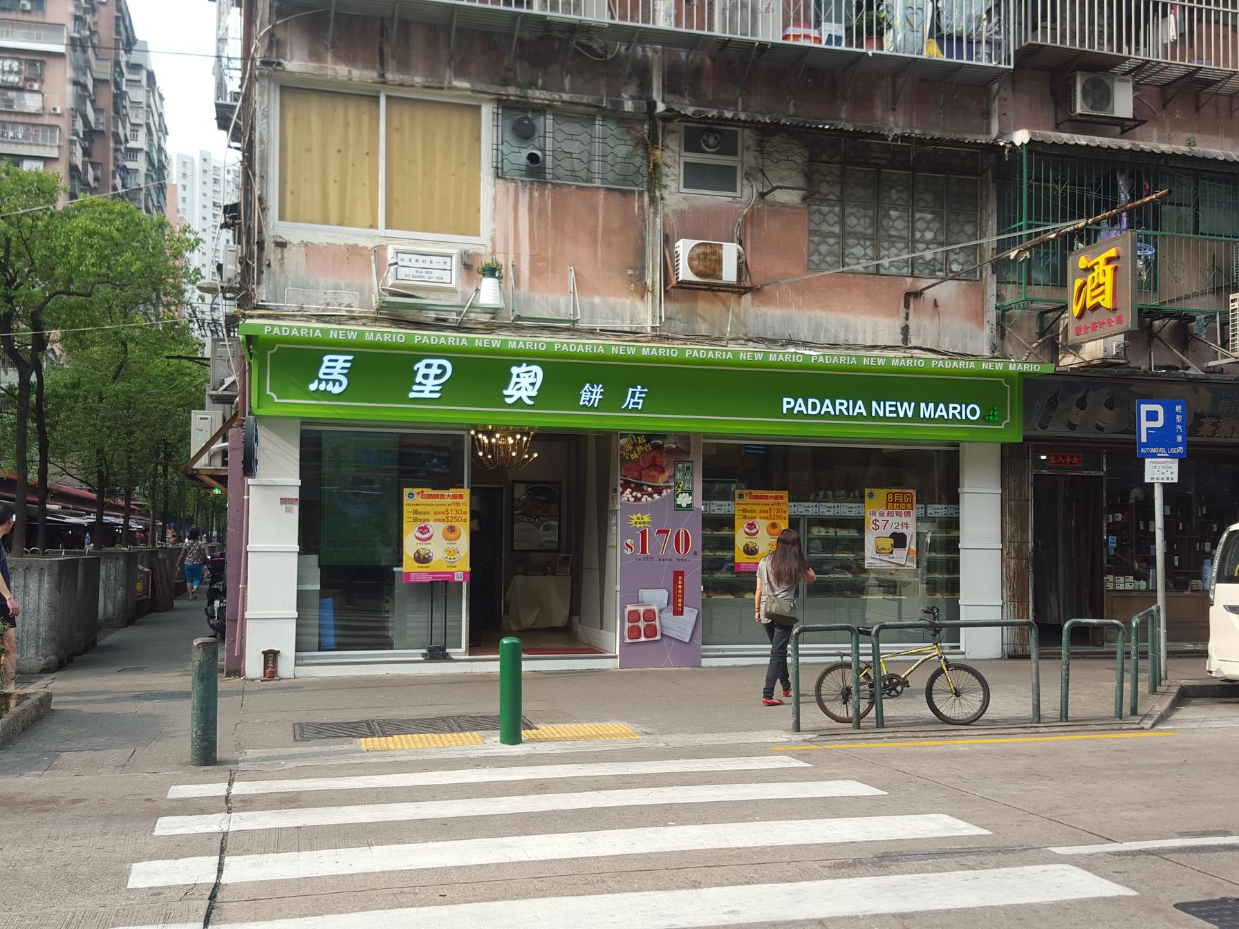 Padaria New Mario in Iao Hon